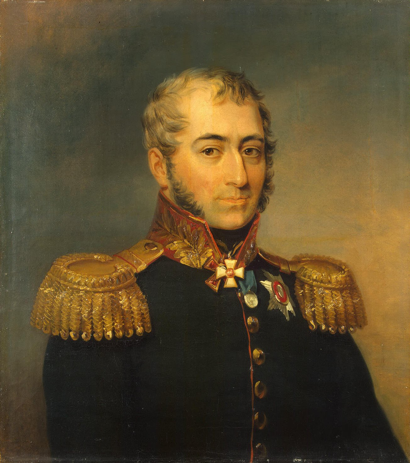 Andrey_Pavlovich Zass (1753-1815) russian general